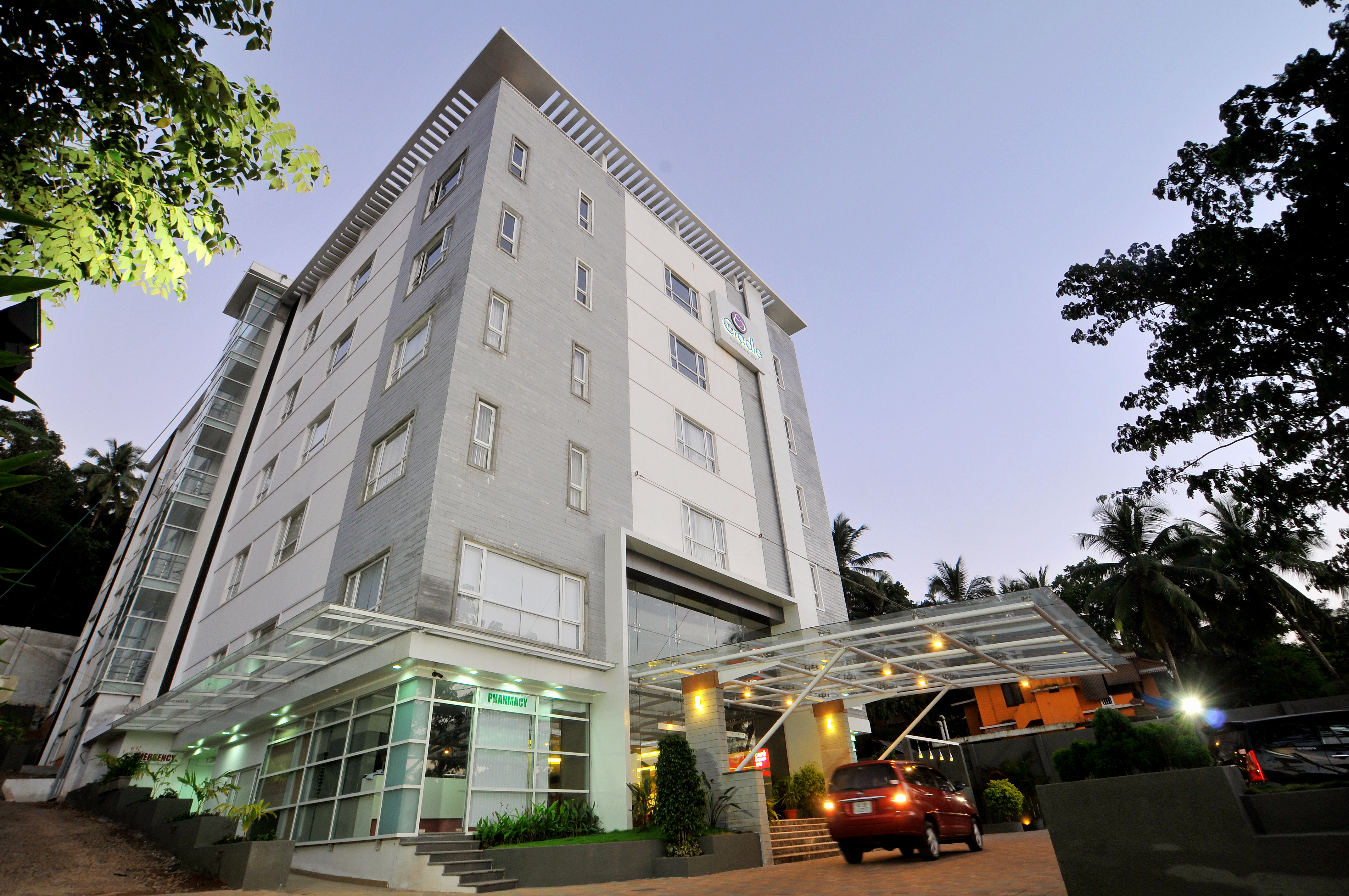 The Cradle, Calicut Building